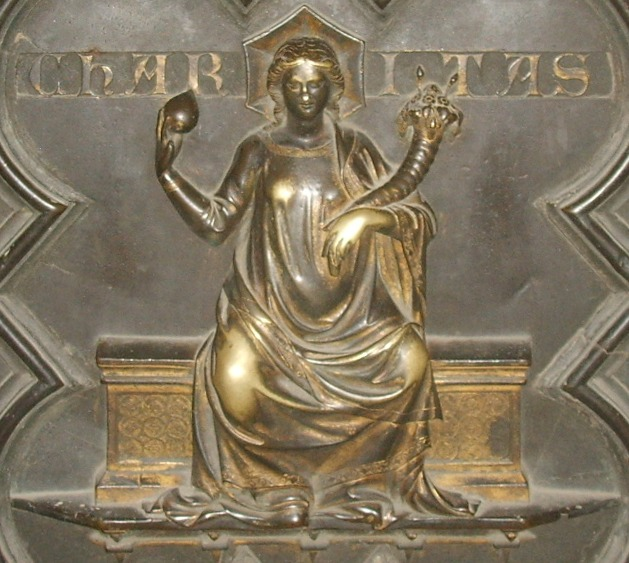 "Charity" on the bronze doors of the south porch of the Florence Baptistry